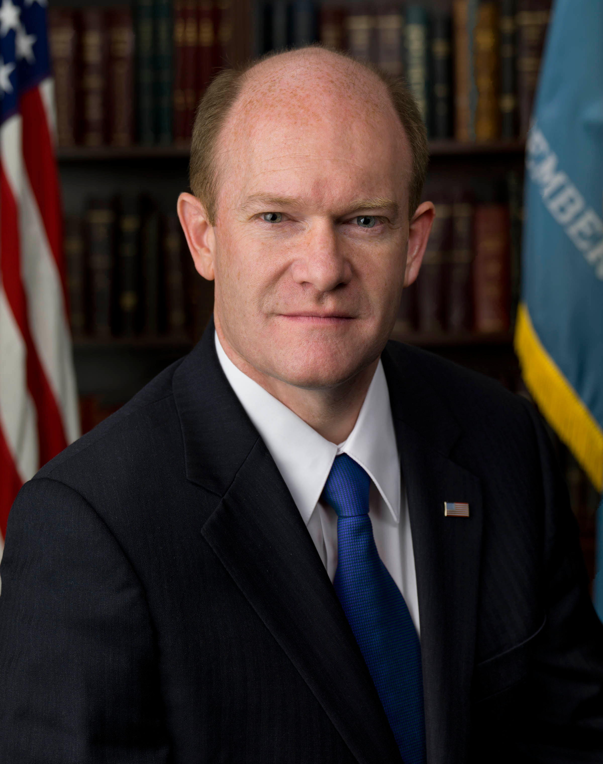 Official Senate photo of Senator Chris Coons (D-DE)